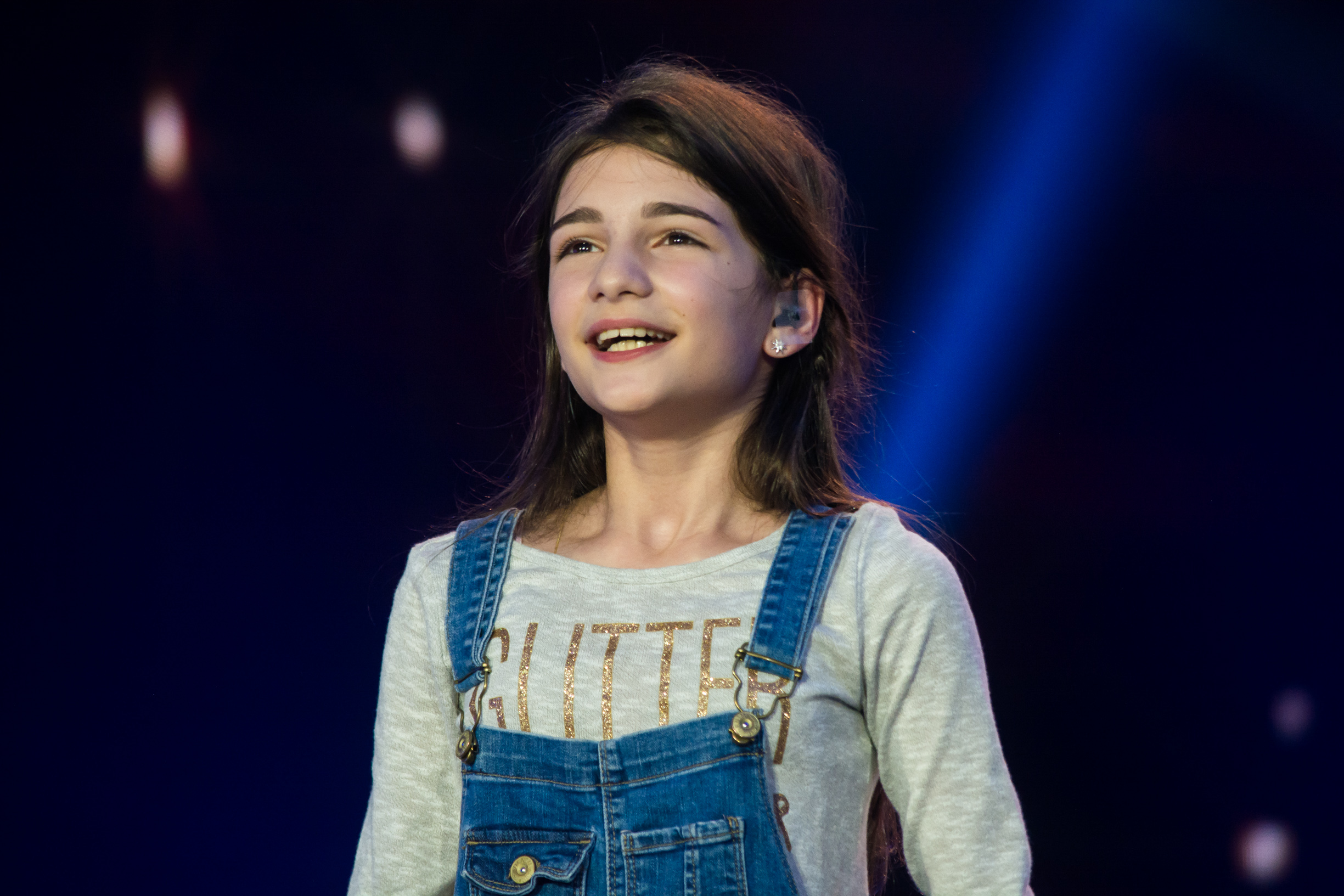 JESC 2016 participant: Mariam Mamadashvili (Georgia)